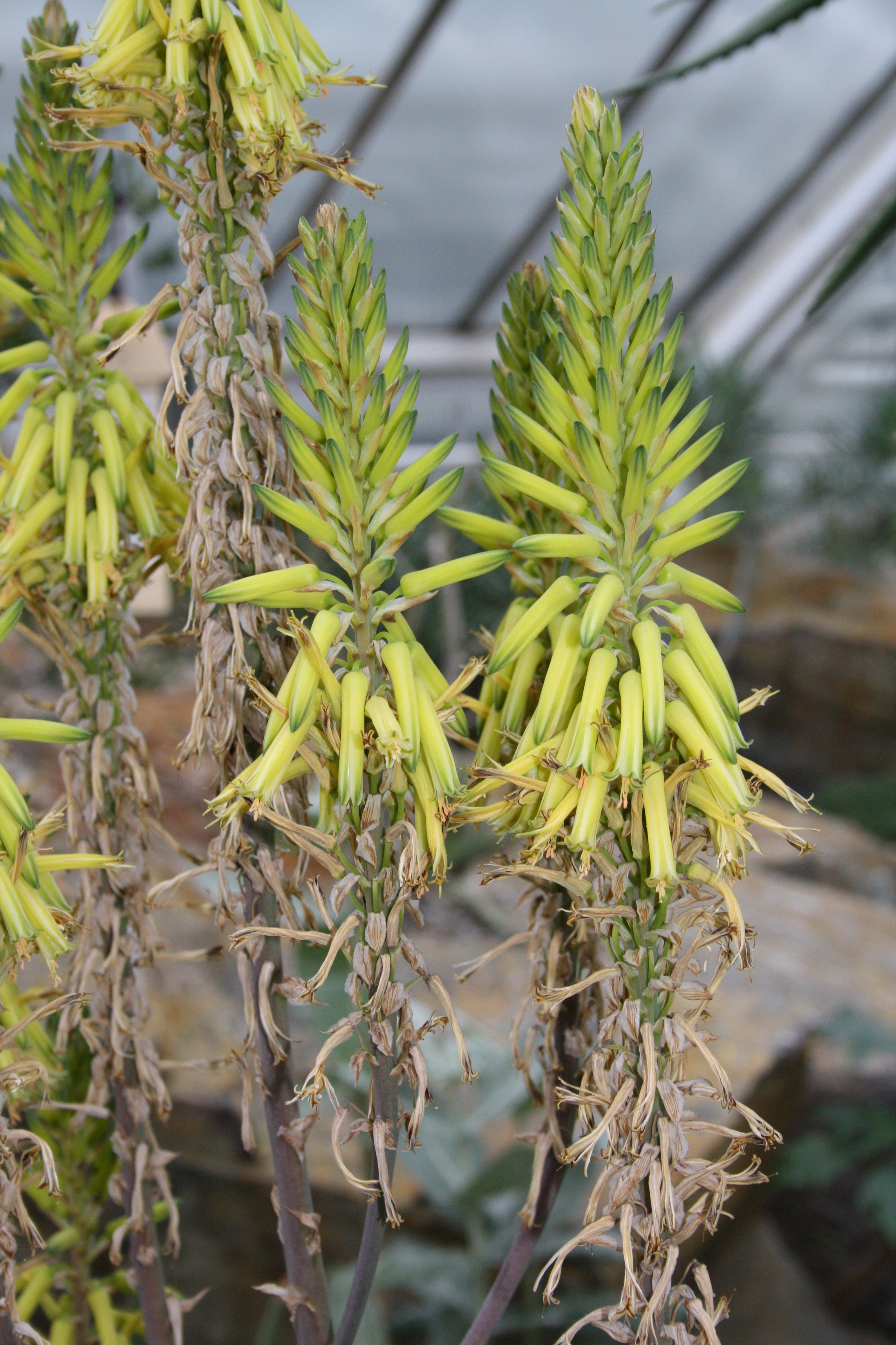 Flower Aloe vacillans